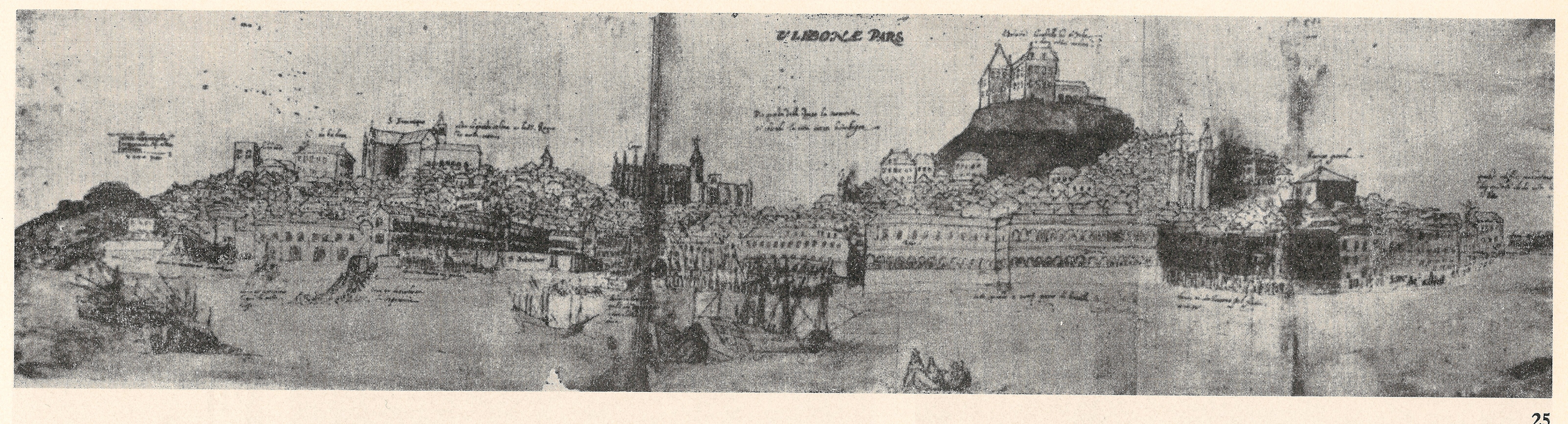 The Palace Square in 14 th of may, 1575 by Simão de Miranda